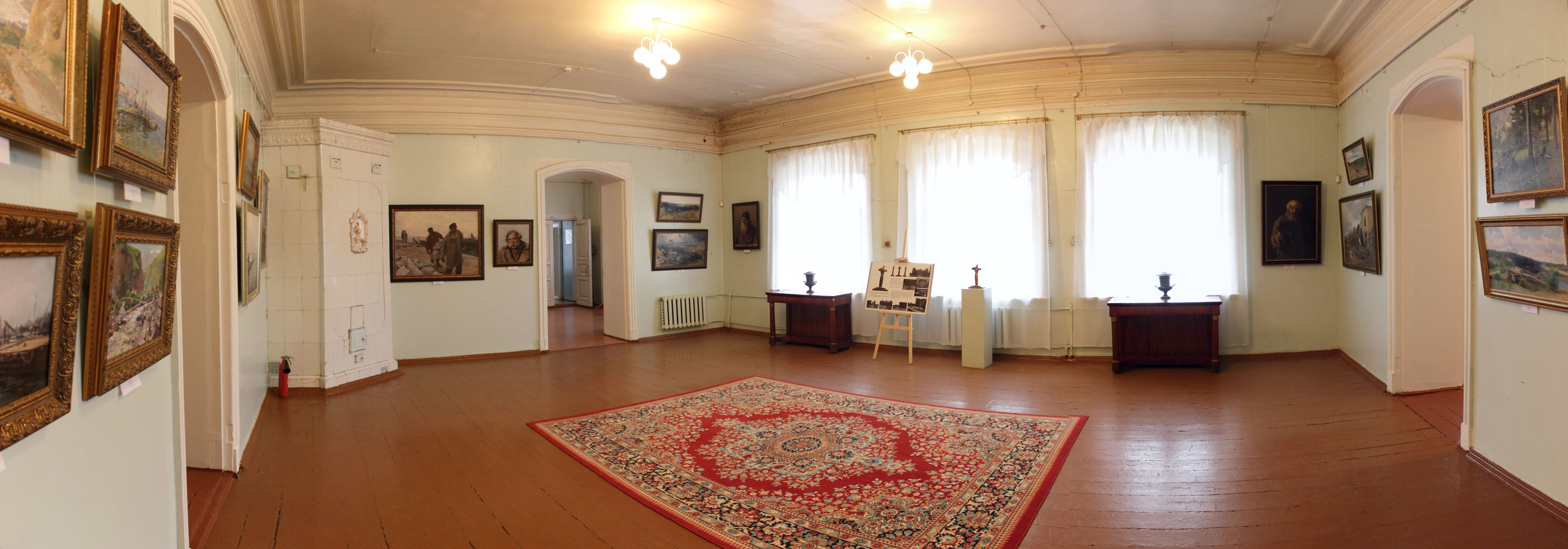 Kologriv Museum of Local Lore behalf G.A. Ladyzhensky